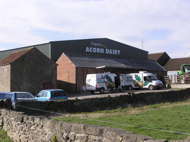 Archdeacon Newton. Townend Farm , Archdeacon Newton : Site of Medieval Village.(visible Earthworks)